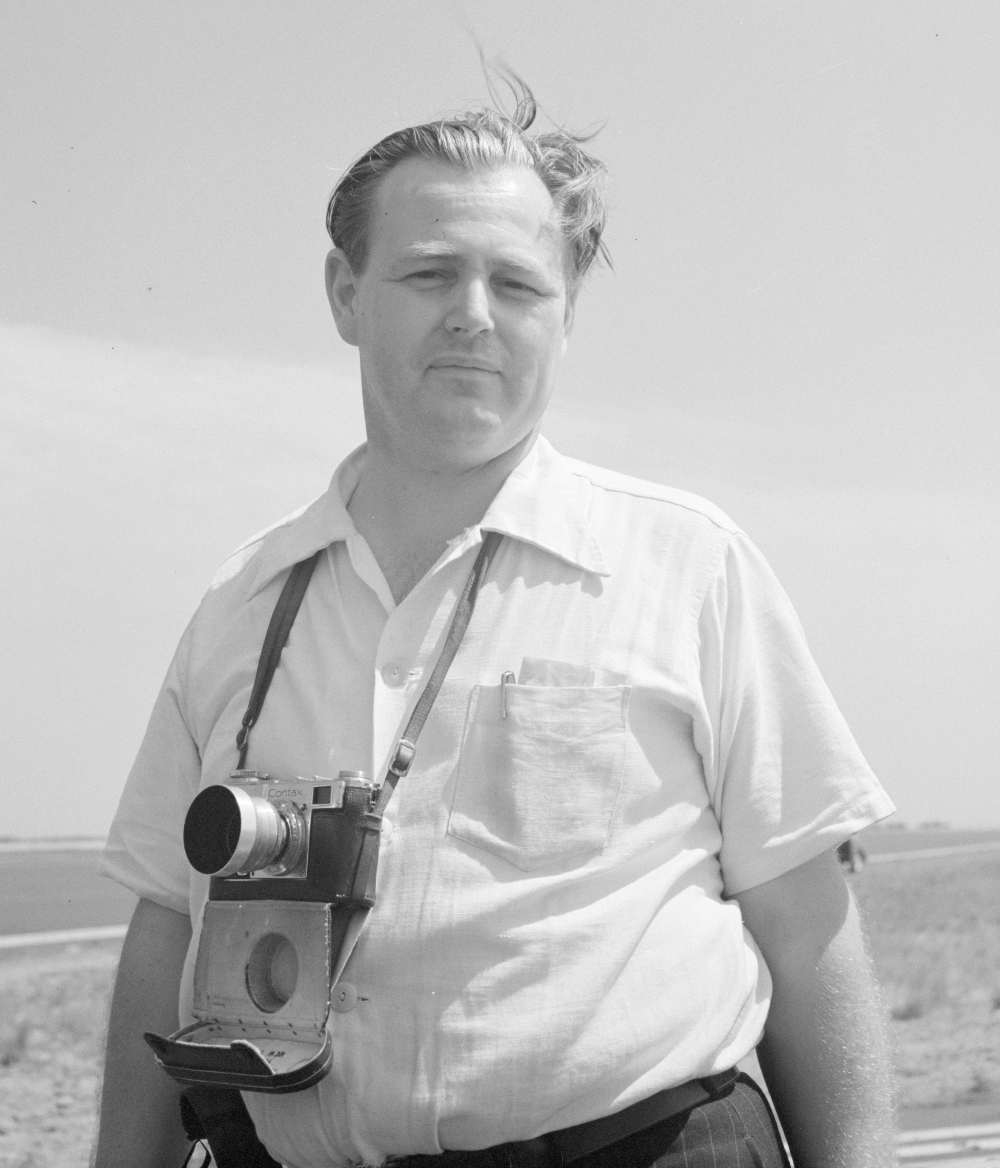 Alfred T. Palmer, U.S. Office of War Information photographer at the U.S. Marine glider detachment training camp, Parris Island, South Carolina (USA).